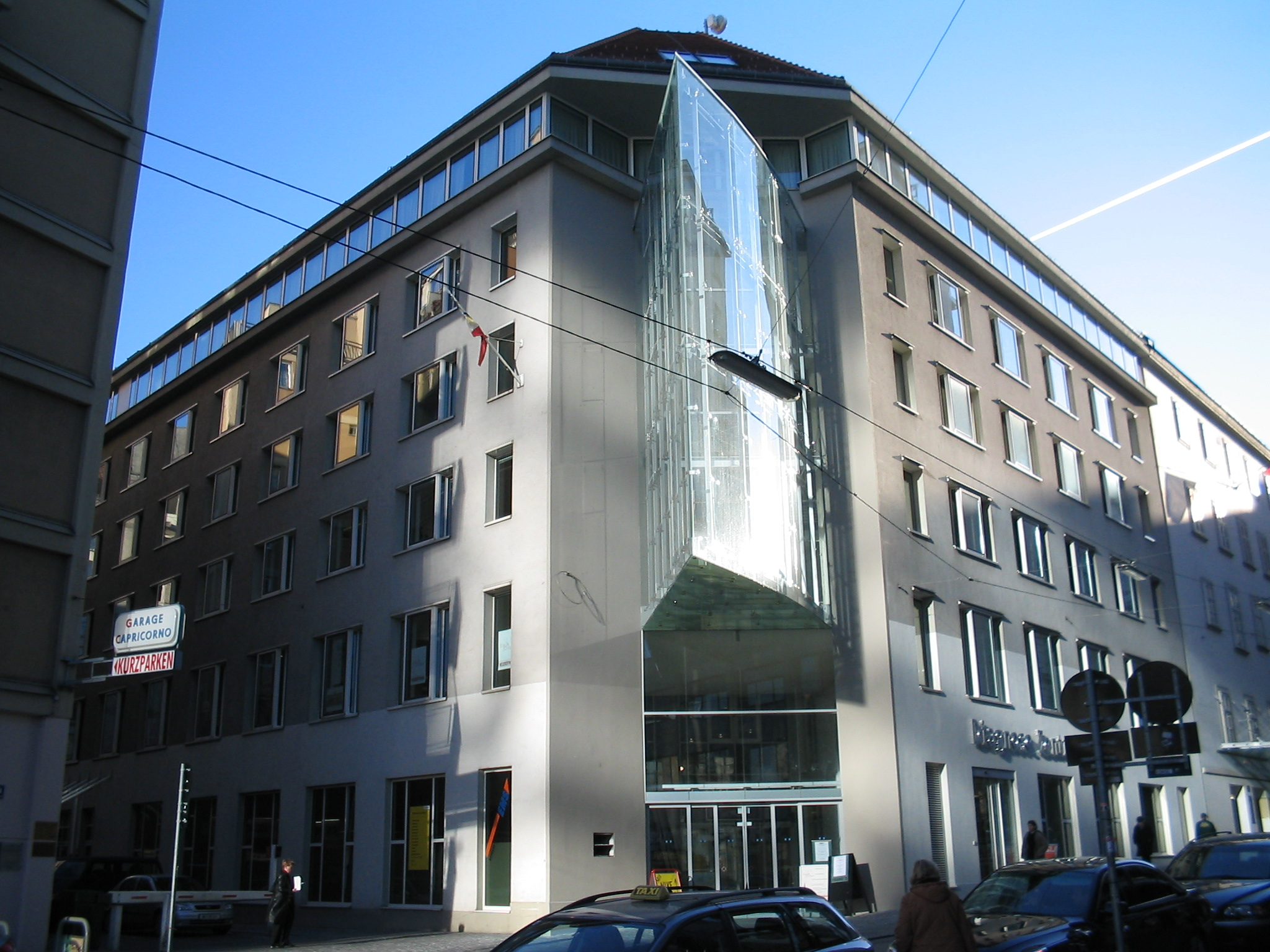 House Laurenzerberg 2 in Vienna with the Phillipines and Canadian embassy